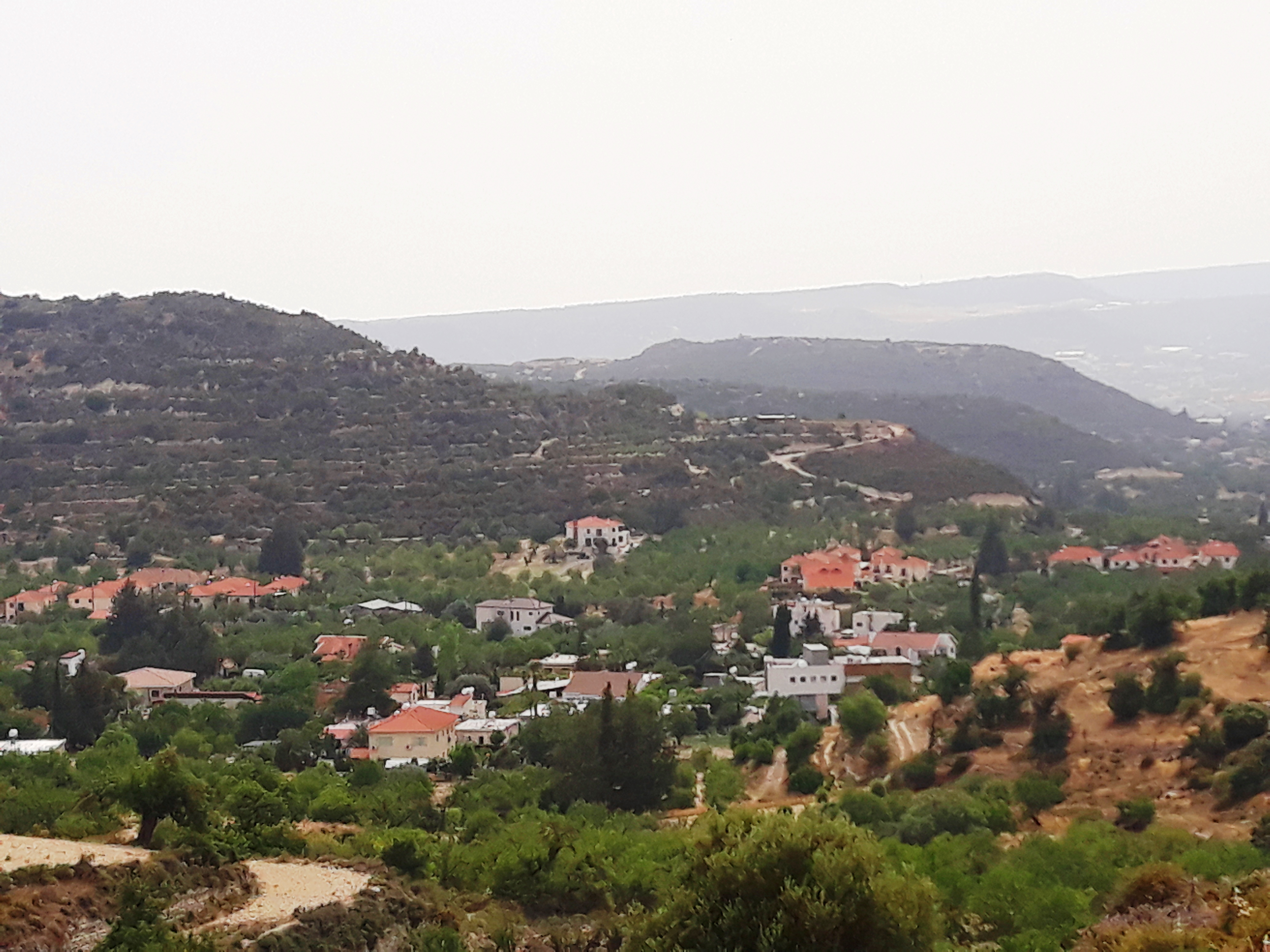 View of Fasoula, Limassol.